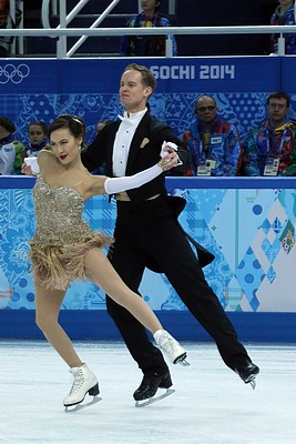 Madison Chock and Evan Bates at the 2014 Winter Olympics